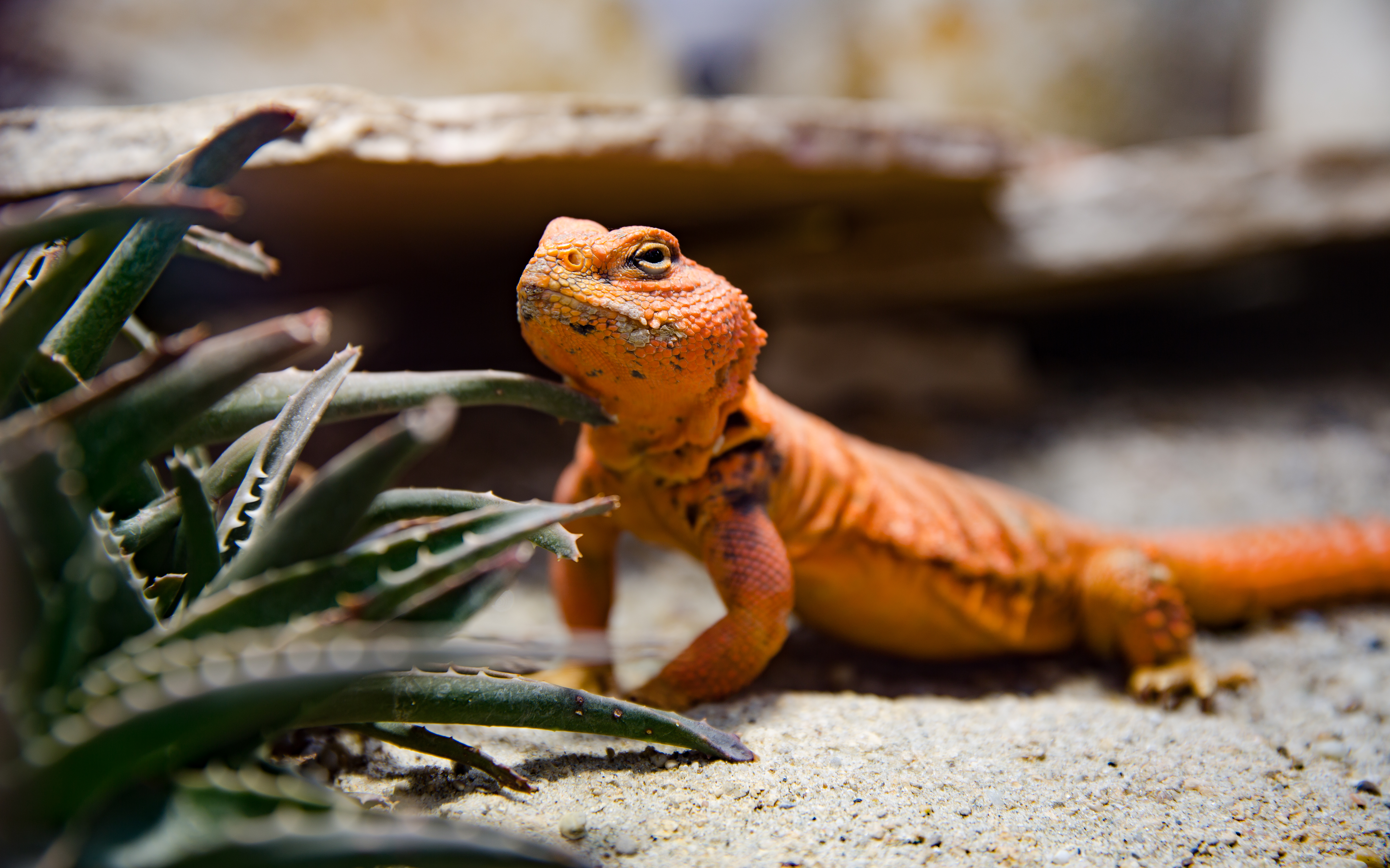 Uromastyx geyri - Blumengärten Hirschstetten in Vienna, Austria.